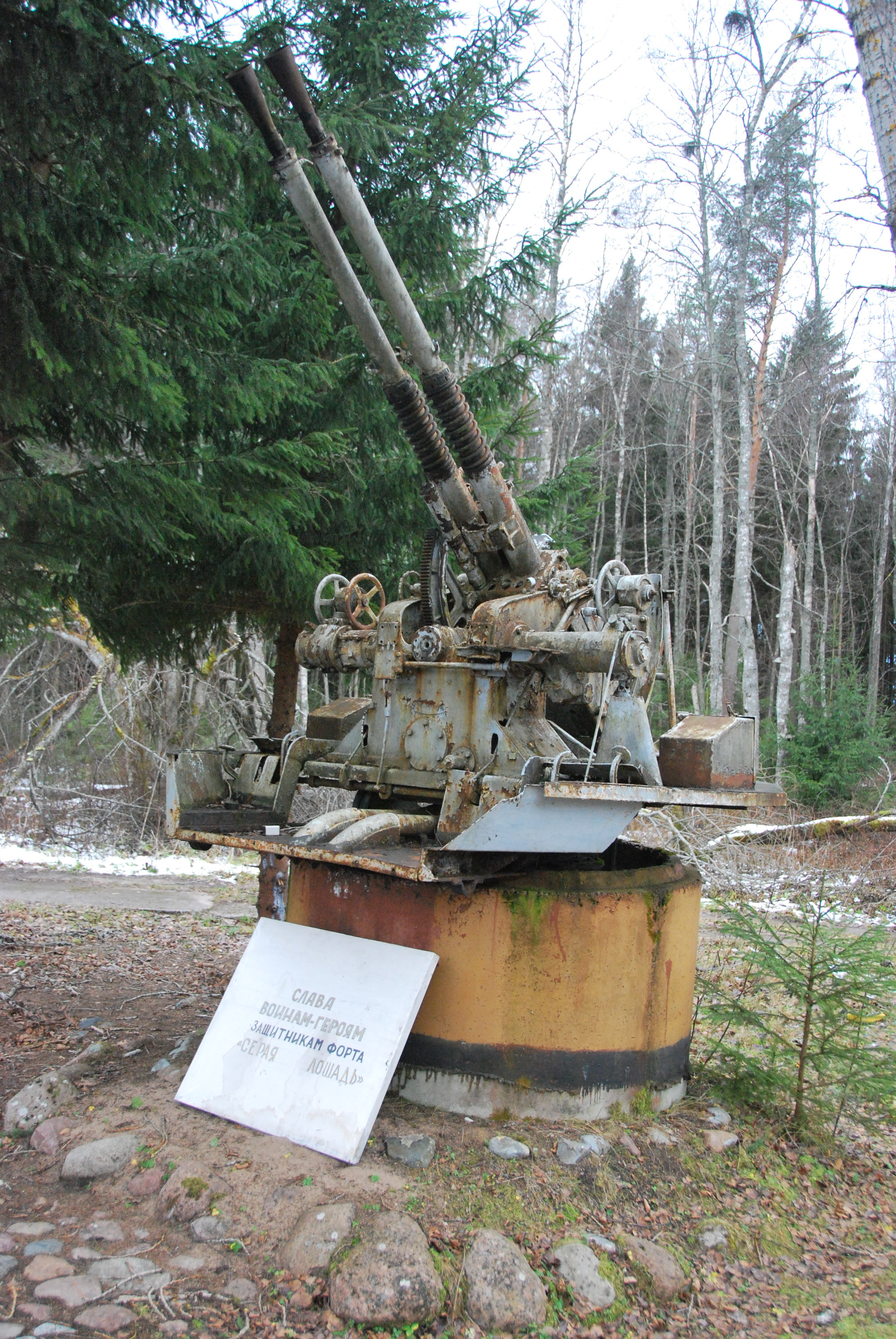 Twin 37 mm anti-aircraft autocannon V-11 - memorial to the defenders of Seraya Loshad' fort